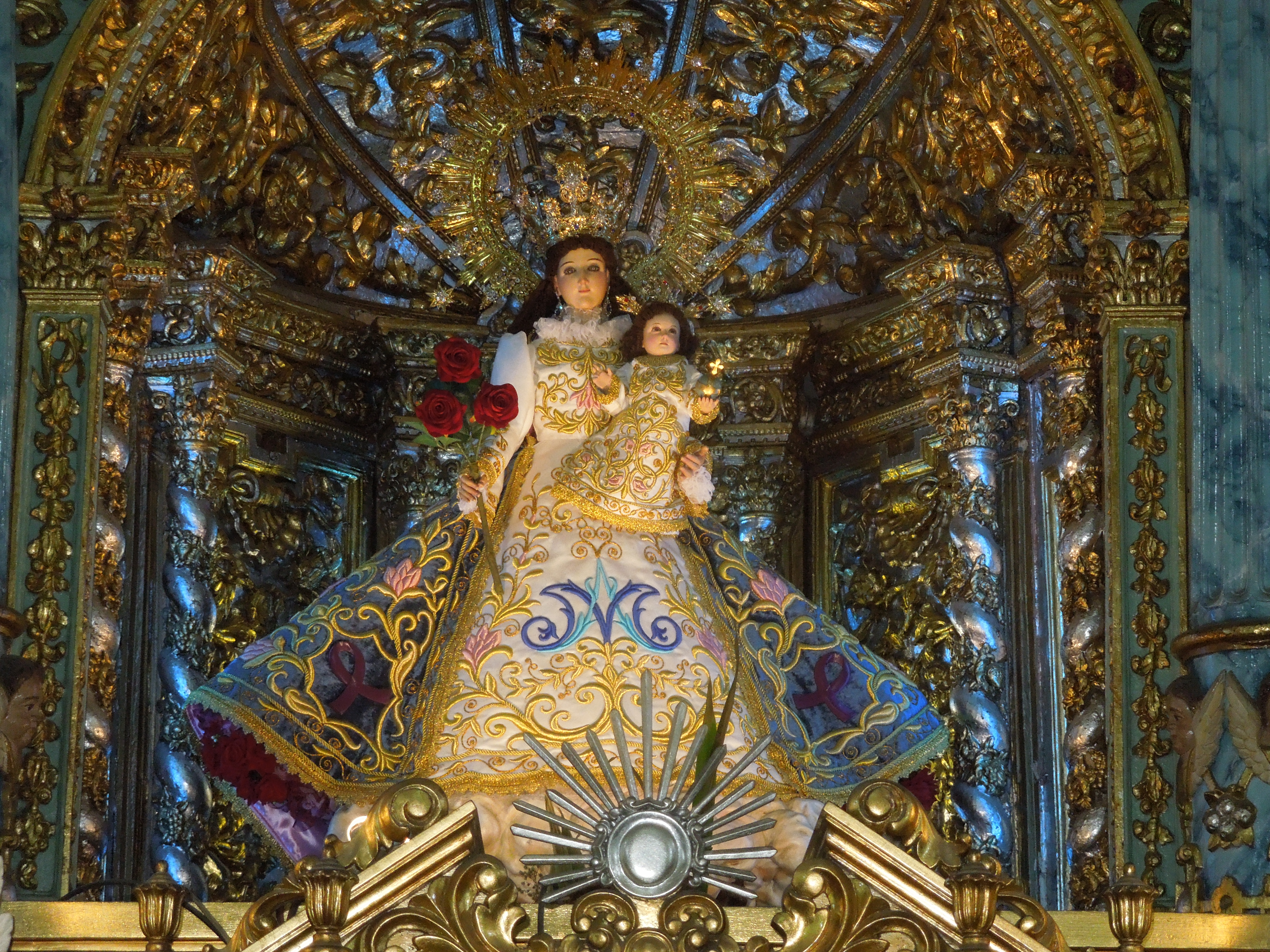 San Pedro Macati Church Saint Peter and Paul Parish Church (Makati) 14°33'57"N 121°1'52"E July 1, 1608 Founded, Completed in 1620, destroyed in 1762 and rebuilt in 1849 by adobe and woods from Guadalupe and Meycauayan City, Bulacan, Declared as Heritage of Makati City on August 14, 2009, 5519 D. M. Rivera Street corner Paraiso Street corner P. Burgos Street Solemnly Blessed Dedicated on January 30, 2015 Feast of 1718 Virgen de la Rosa from Acapulco, Mexico with a Reliquary in Her Breast which contain Her Hair is every June 30th List of barangays of Metro Manila, Legislative districts of Makati, Barangay Poblacion 14°34'3"N 121°1'52"E Poblacion, Makati, Makati City (Note: Judge Florentino Floro, the owner, to repeat, Donor Florentino Floro of all these photos hereby donate gratuitously, freely and unconditionally all these photos to and for Wikimedia Commons, exclusively, for public use of the public domain, and again without any condition whatsoever).